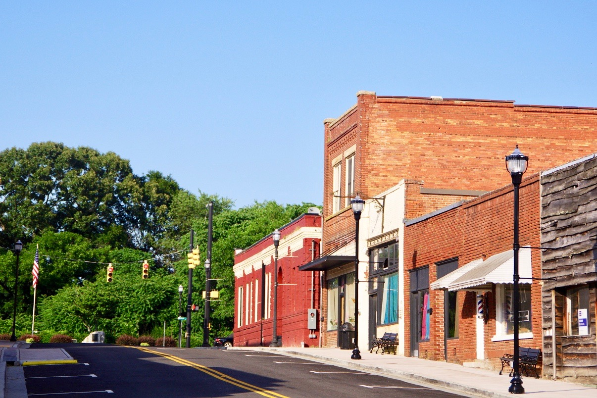 Buildings along Mill Street (S 338) in Inman, South Carolina, United States.